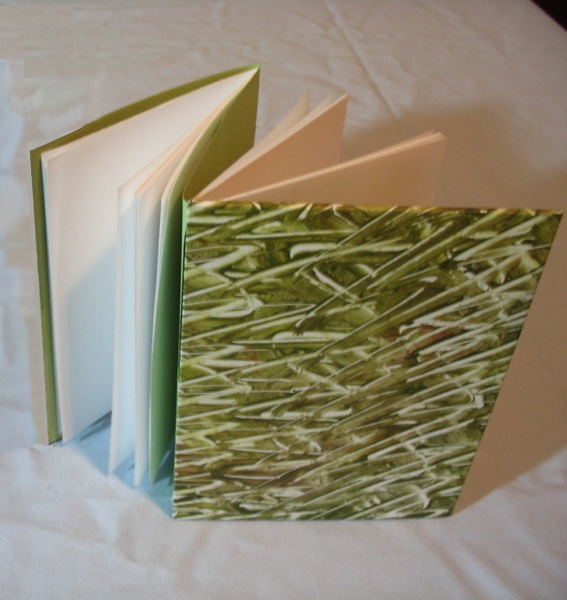 Dos-à-dos binding - Twin binding - Back-to-back binding